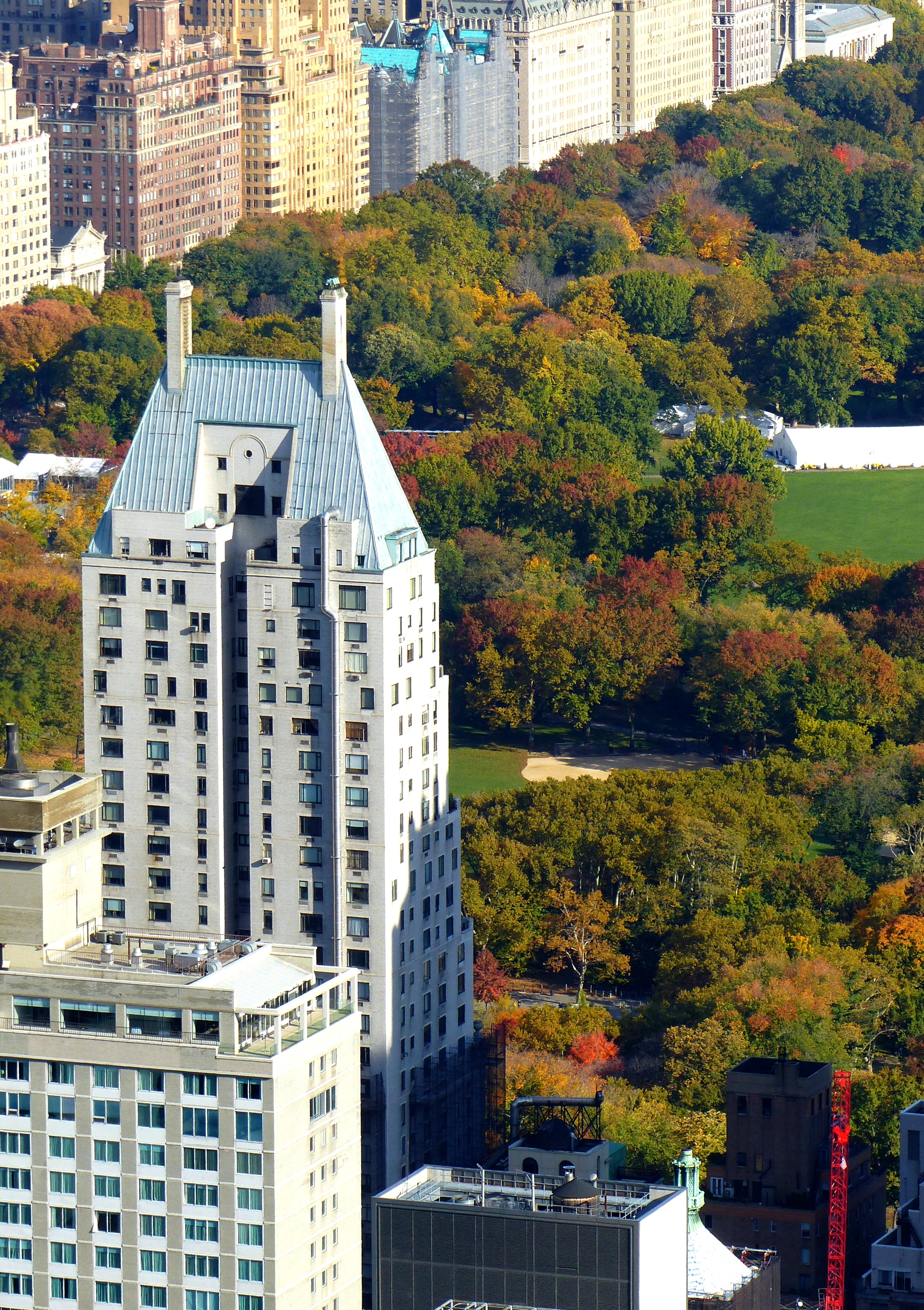 NYC - Top of the Rock - view of Hampshire House